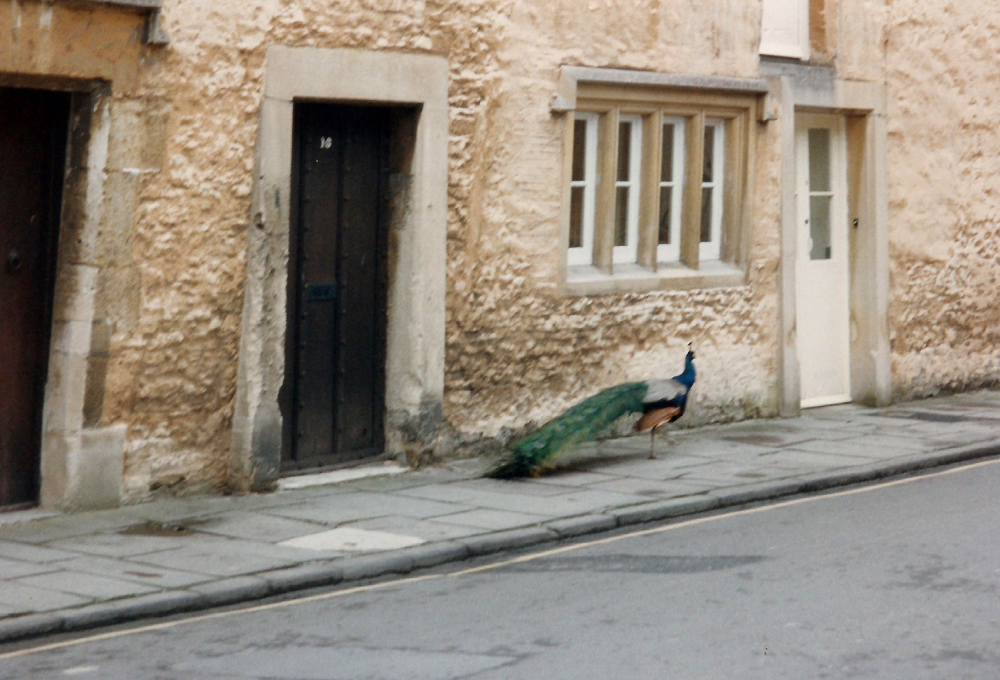 A peacock ambles along the High Street in Corsham, Wiltshire